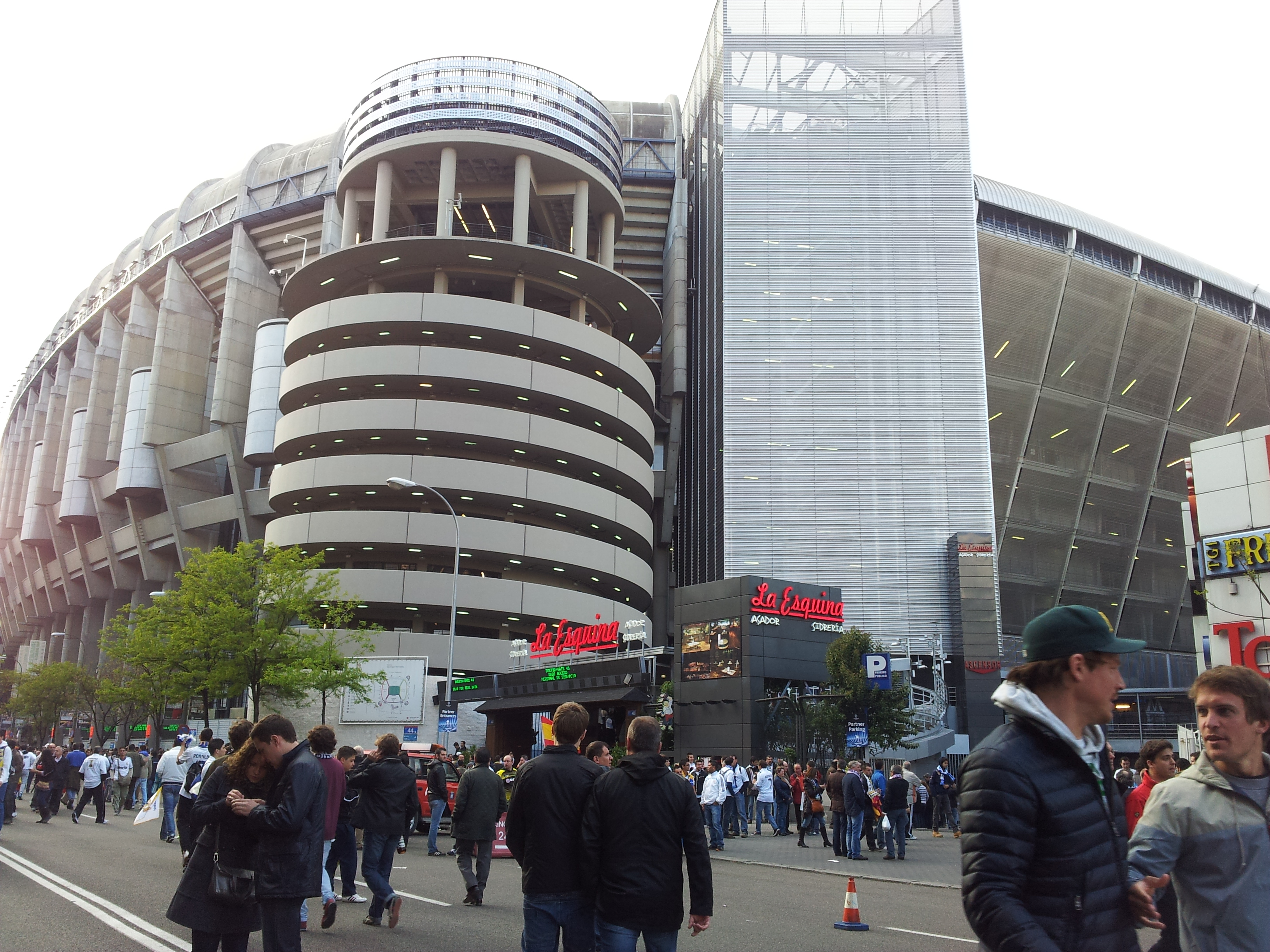 Exterior of Santiago Bernabéu Stadium